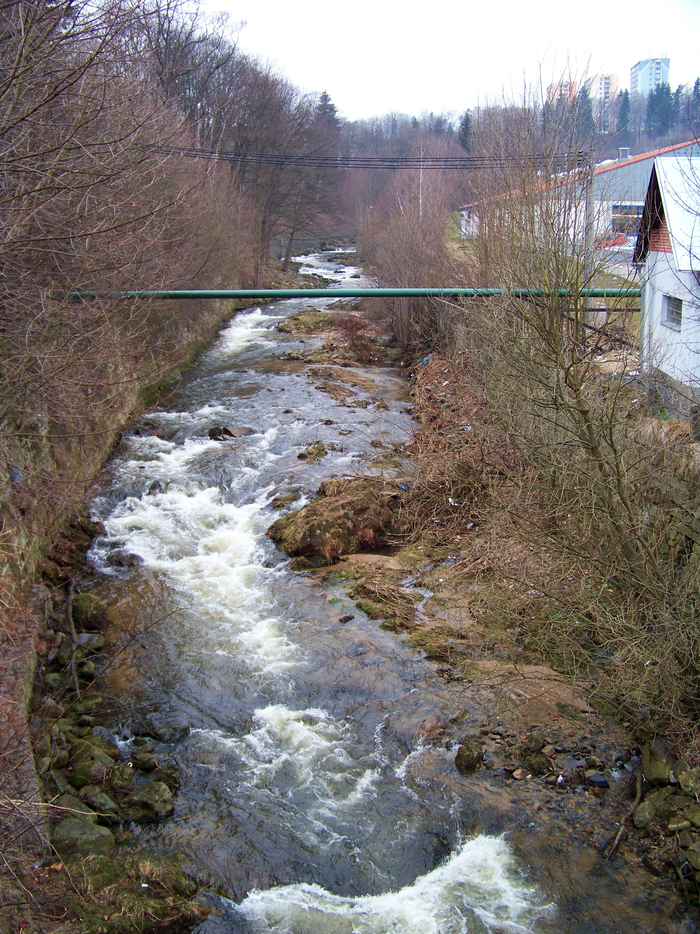 Tanvald, Jablonec nad Nisou District, Liberec Region, the Czech Republic. Kamenice River.